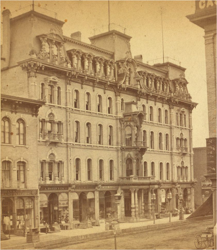 Plankinton House. Sherman, W. H. -- Photographer Stephen A. Schwarzman Building / Photography Collection, Miriam and Ira D. Wallach Division of Art, Prints and Photographs